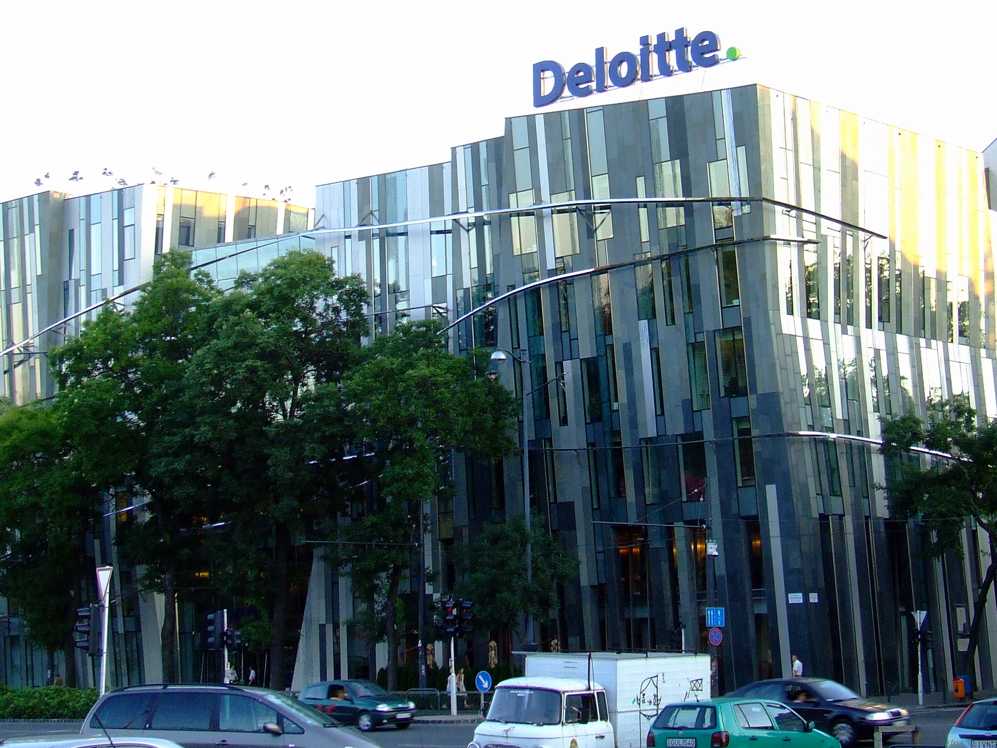 The Deloitte Building in Budapest, Hungary